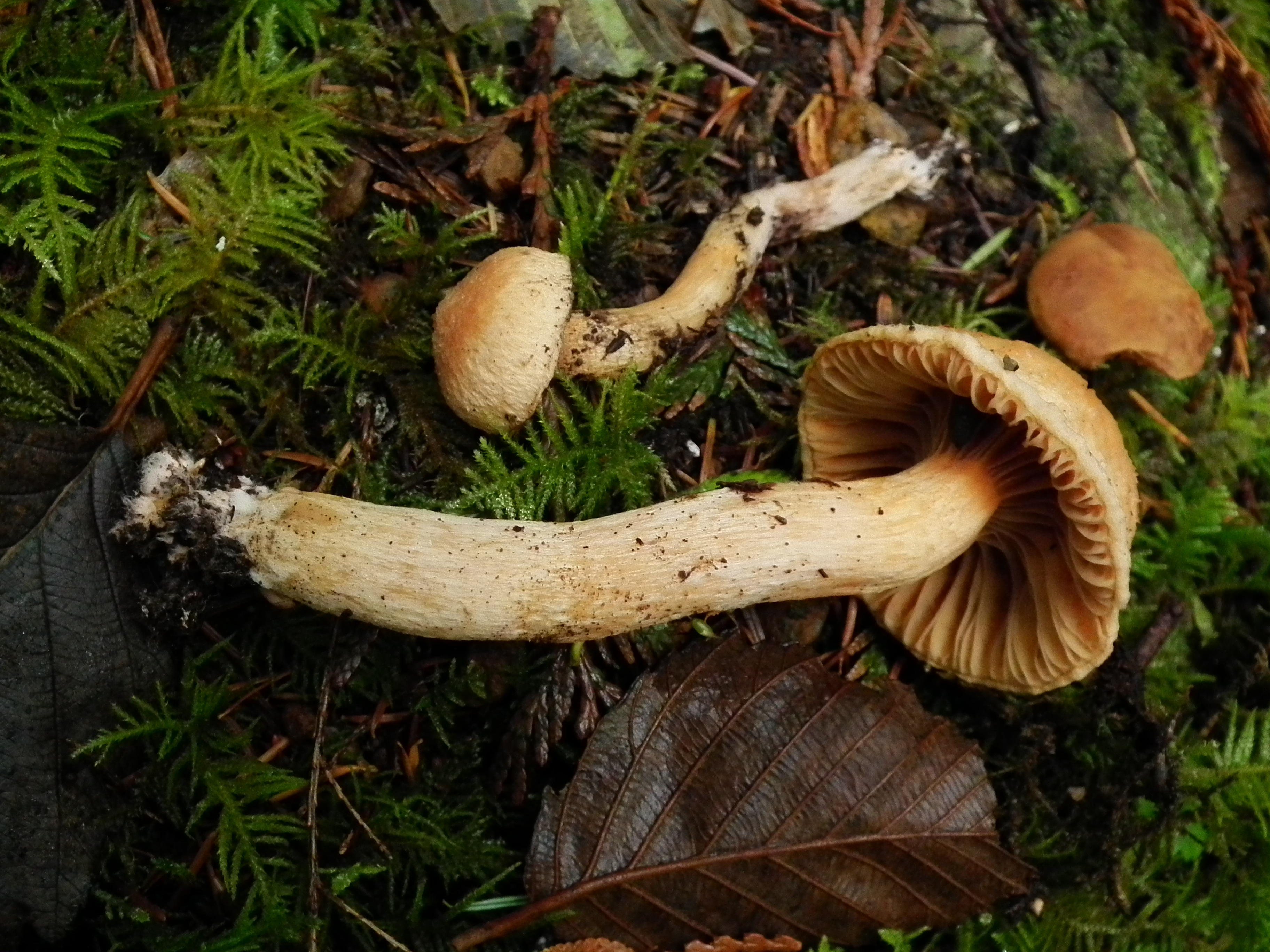 Chroogomphus tomentosus (Murrill) O.K. Mill.